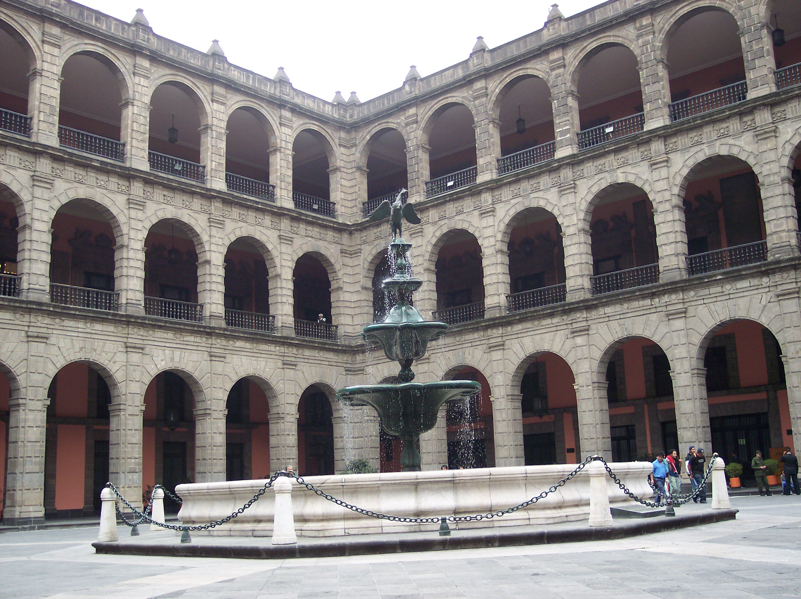 Located in: Historical Center of Mexico City, Mexico.